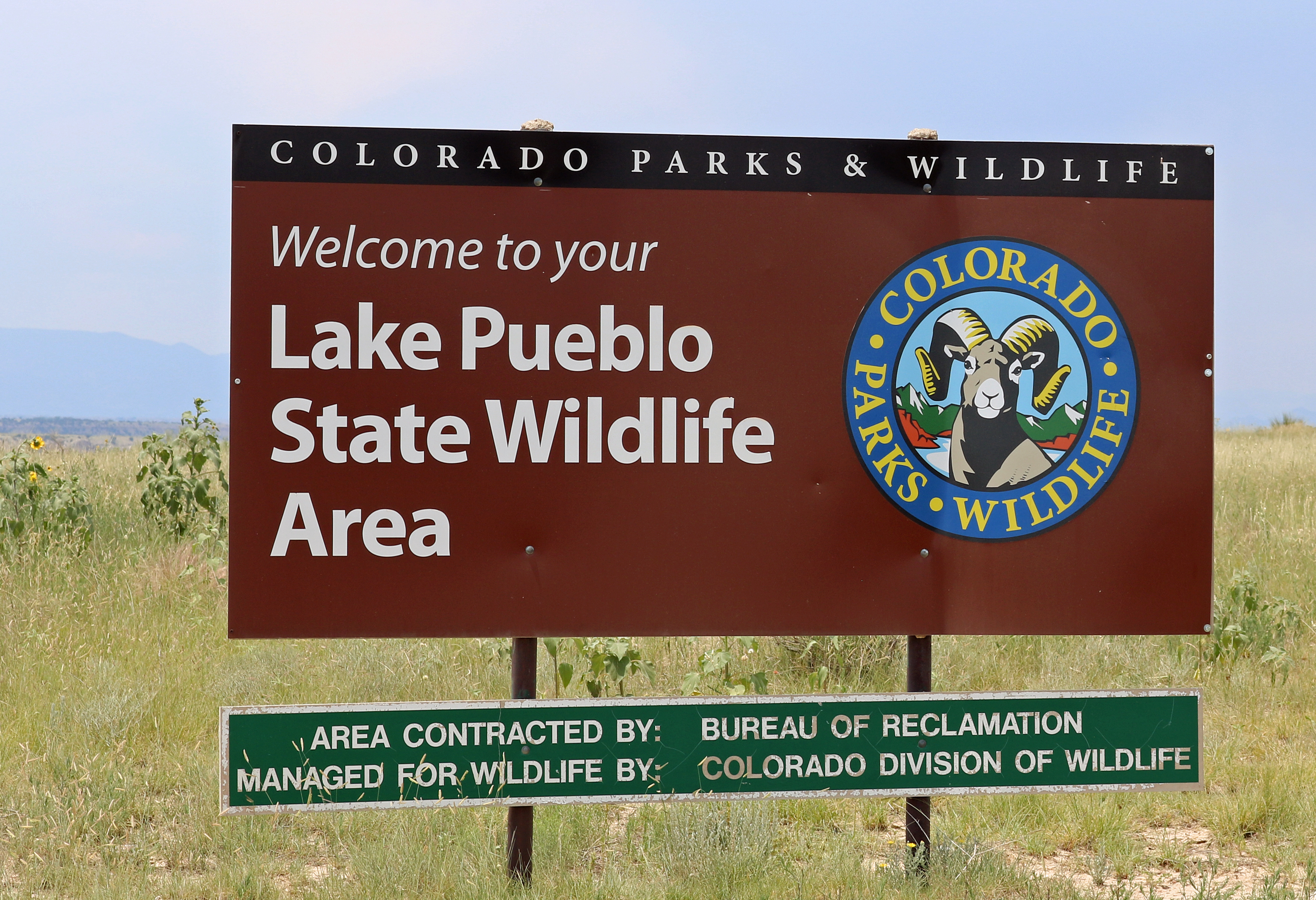 The sign for the Pueblo Reservoir State Wildlife Area at Lake Pueblo State Park in Pueblo County, Colorado. The sign's wording (Lake Pueblo State Wildlife Area) differs from the Pueblo Reservoir State Wildlife Area's official name.